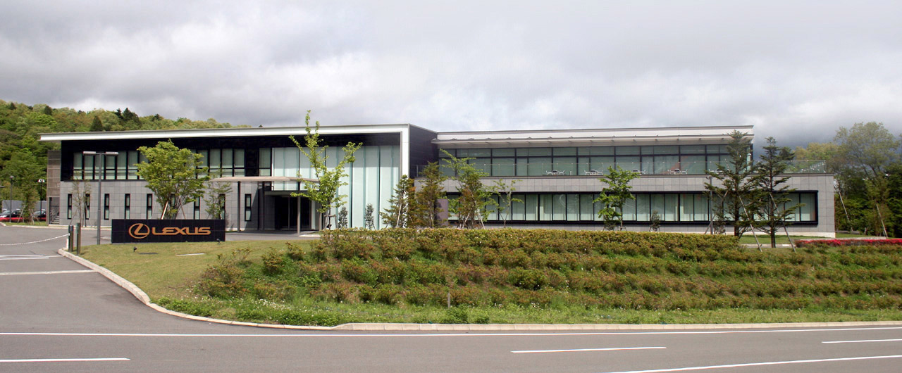 Lexus College, photo adjusted, levels, brighten